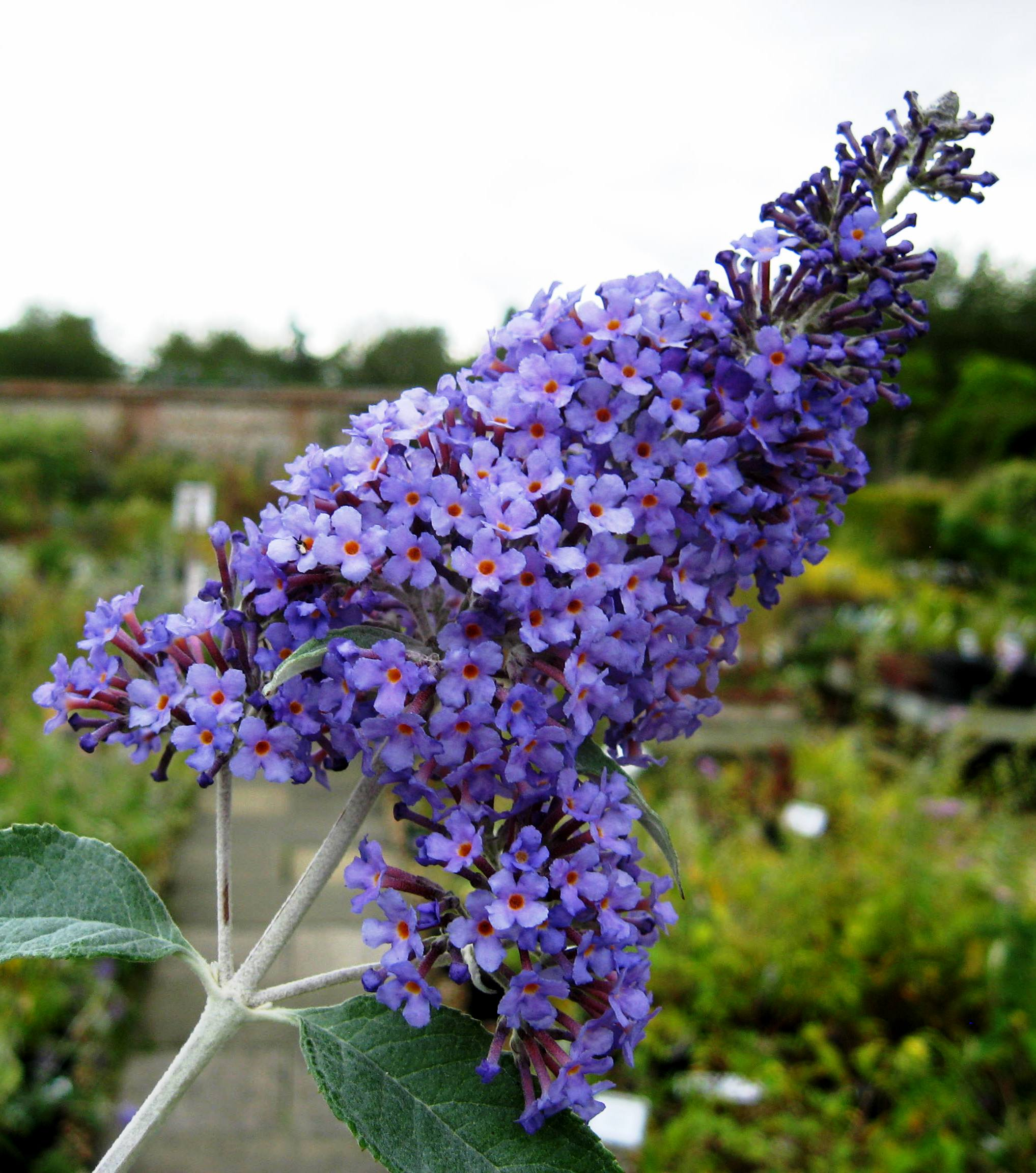 Photo taken at Longstock Park, UK, August 2012.